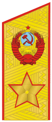 The service shoulder board of Marshal of the Soviet Union since 1955.